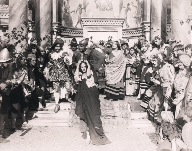 Anna Pavlova (center) in The Dumb Girl of Portici (1916) - cropped screenshot